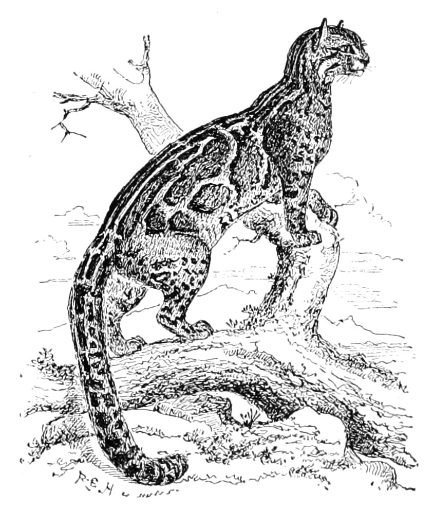 Felis marmorata = Pardofelis marmorata